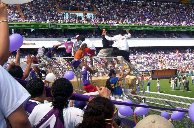 saprissa fans